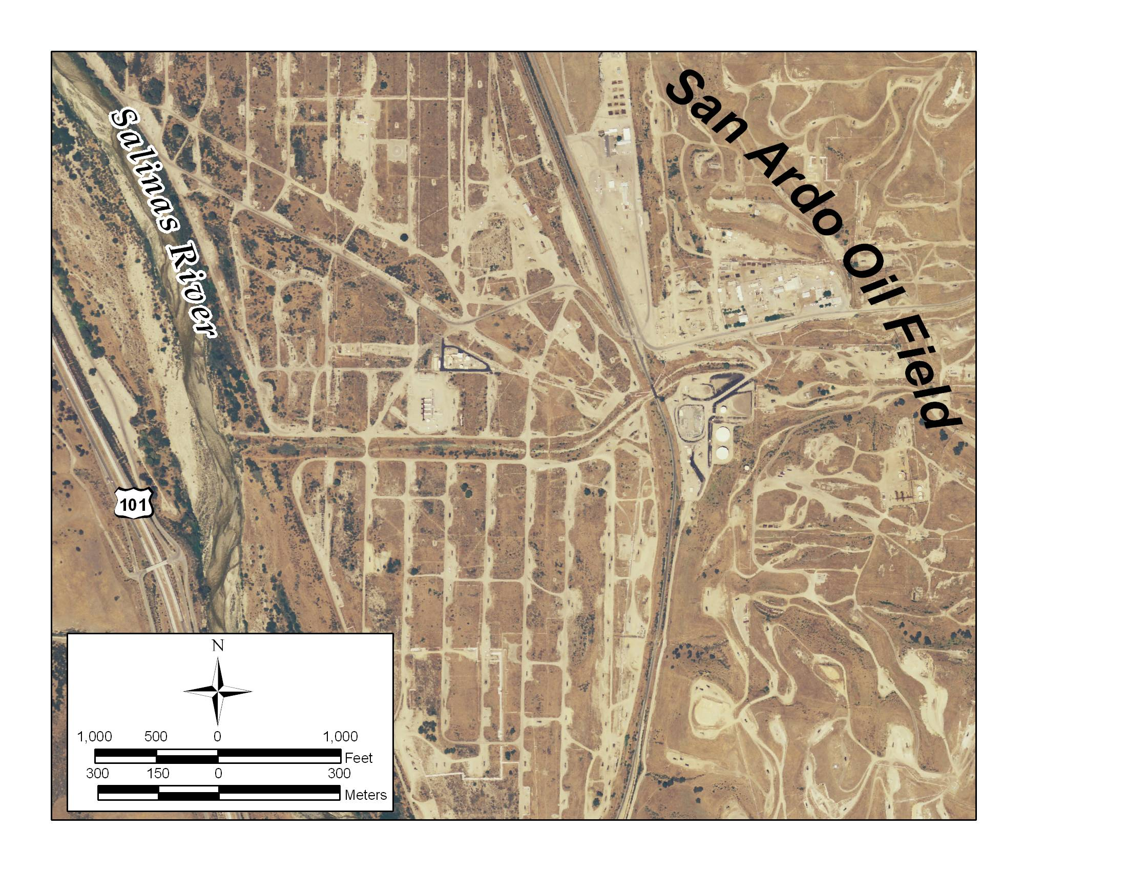 San Ardo Oil Field, with aerial photograph. By User:Antandrus using ArcGIS 9.2. Aerial from USDA NAIP data set (public domain); all data on this map is in the public domain.